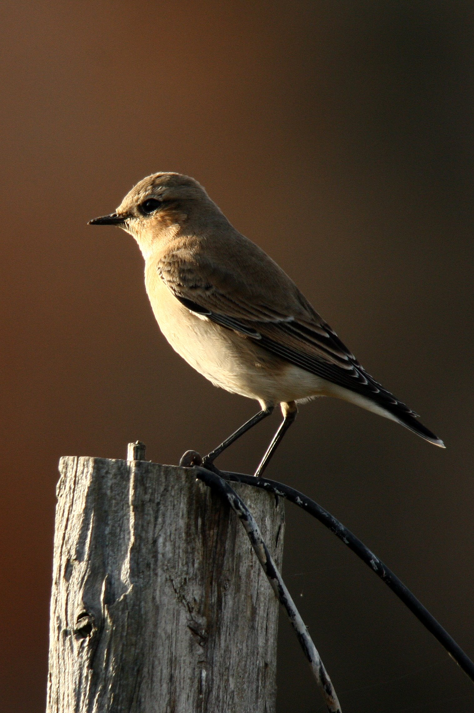 Nonbreeding Northern Wheatear, Oenanthe oenanthe, vagrant in New York